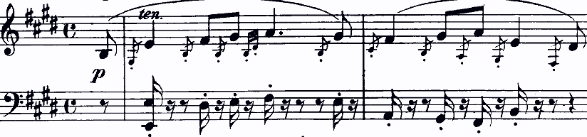 Classical music. Public domain. Old edition. Piano Trio No. 44 (Haydn).